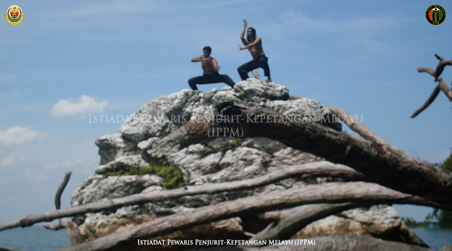 IPPM member, Tun Daeng Farul Azri performing a sparring (duel) with Jay on a big rocks over open sea.